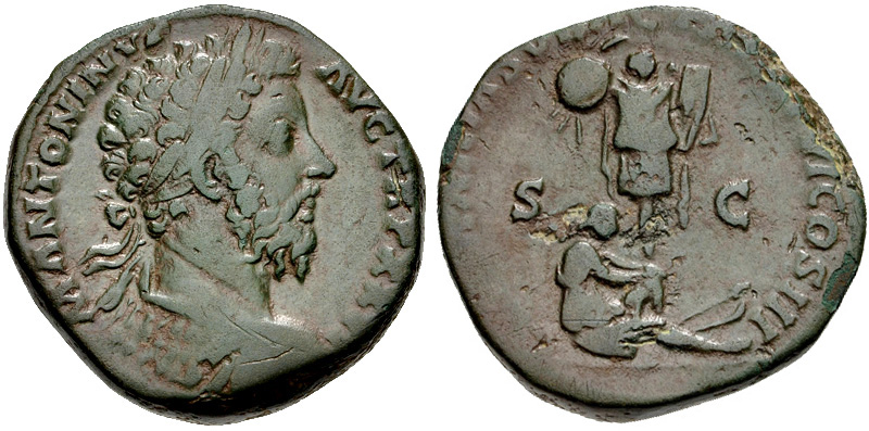 Marcus Aurelius. AD 161-180. Æ Sestertius (28mm, 22.64 g, 11h). Rome mint. Struck AD 172-173. M ANTONINVS AVG TR P XXVI Laureate and cuirassed bust right GERMANIA SVBACTA IMP VI COS III S-C, Germania seated right at foot of trophy. RIC III 1054. Near VF, attractive light green patina.